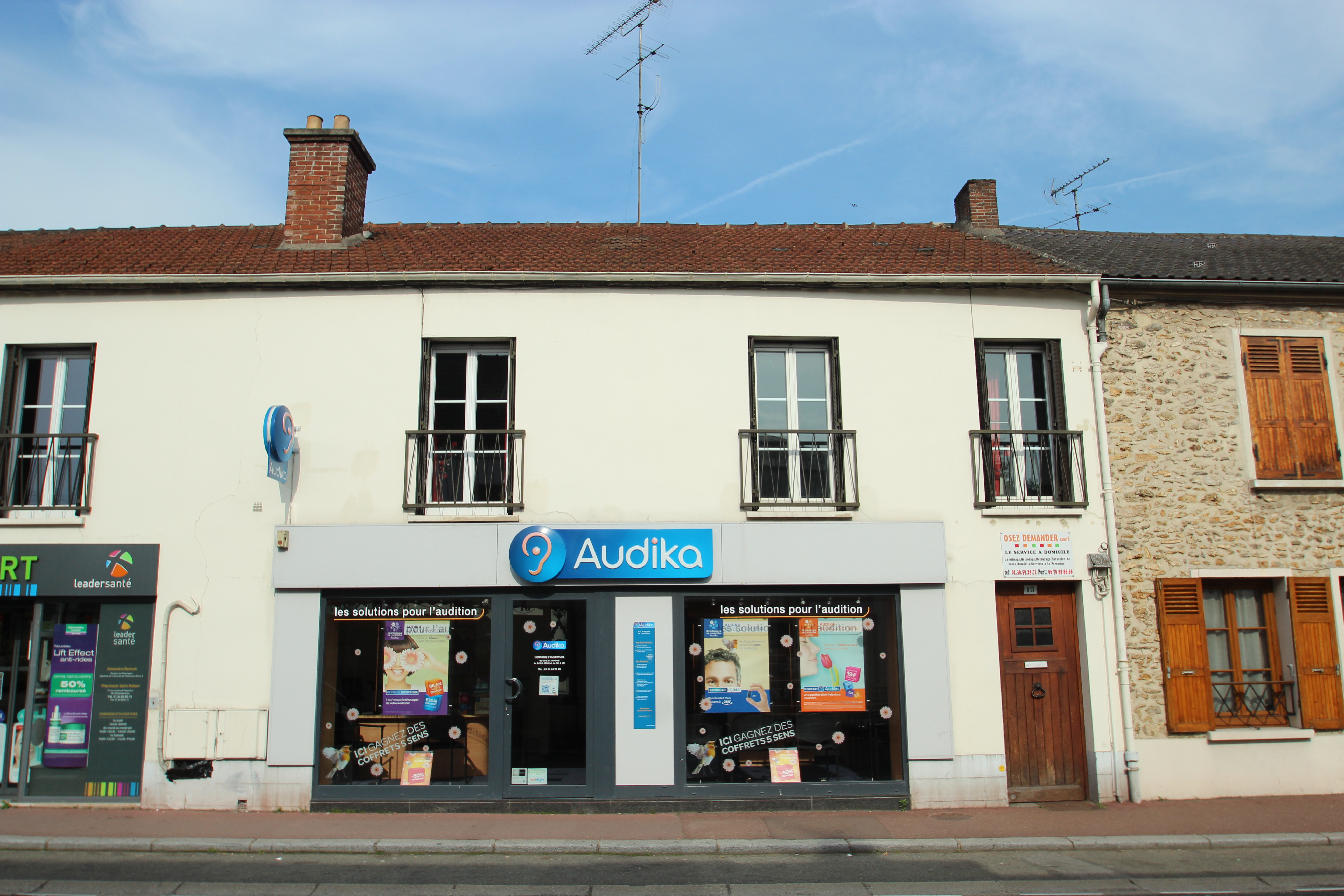 Raymond Patenôtre street in Rambouillet, France. Object location48° 38′ 22.56″ N, 1° 49′ 49.08″ E